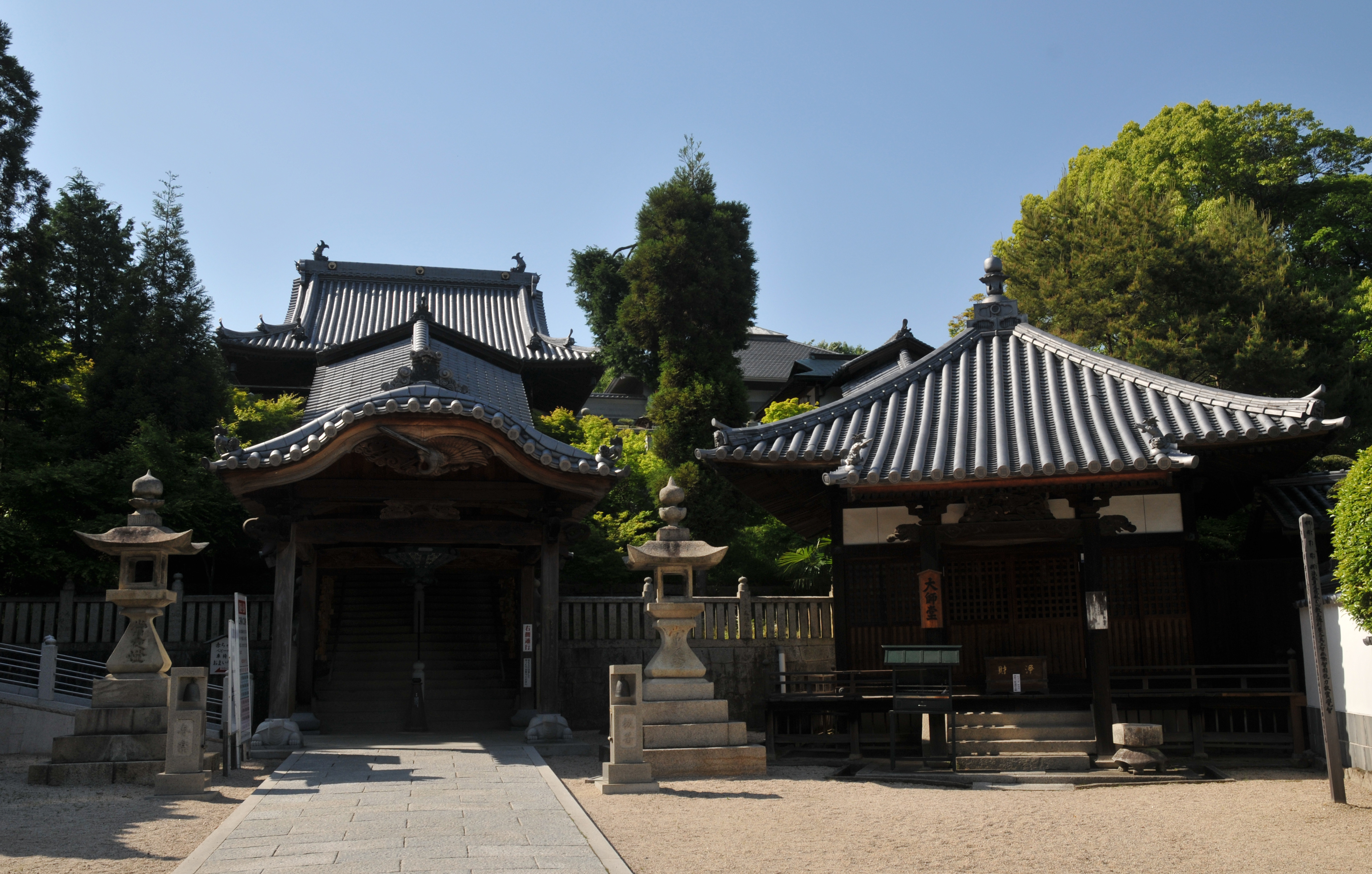 Arawazu Kannon-ji temple